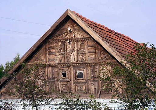 Special folklore on a house in Čantavir - Csantavér, Vojvodina (Serbia).